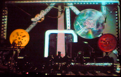 pierre bastien live in belgrade 2006